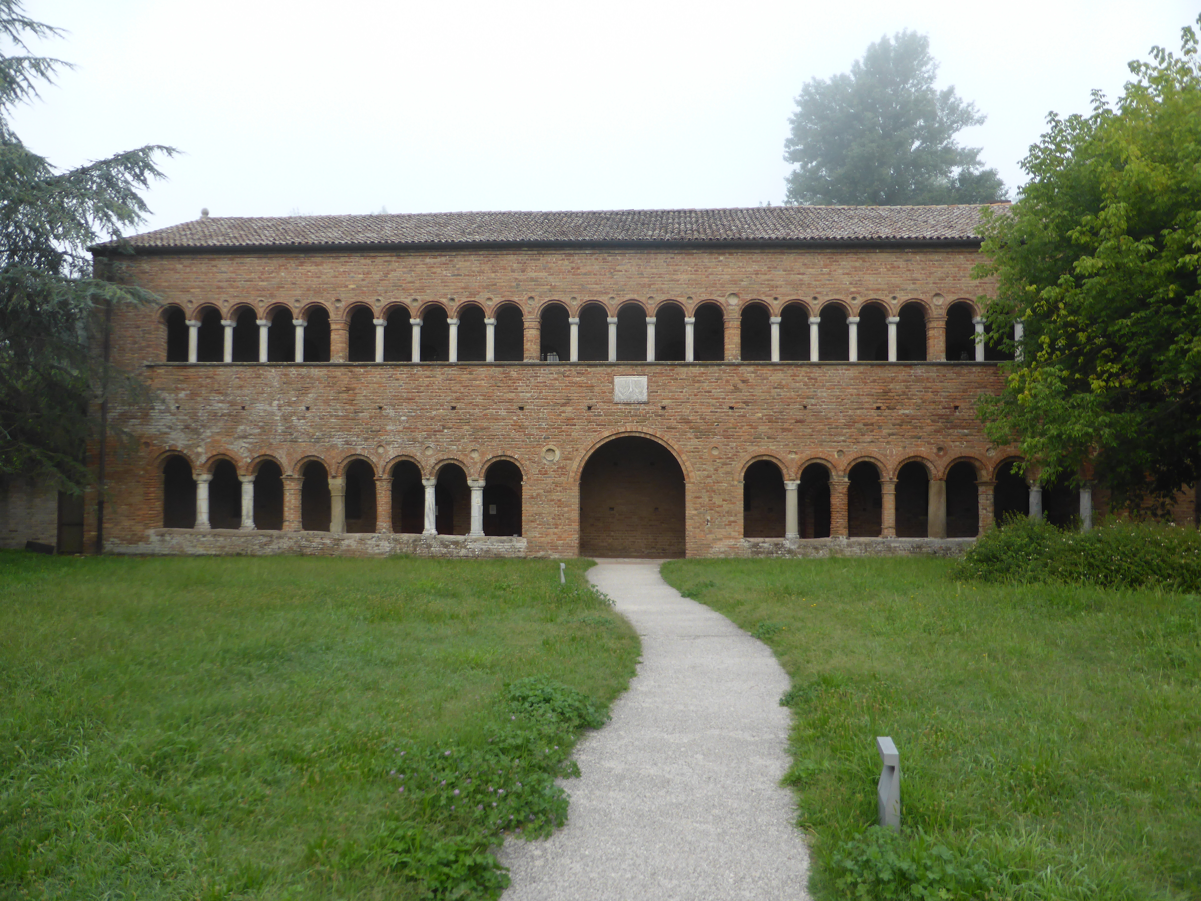 View of the Palazzo della Ragione in Pomposa Abbey, Italy